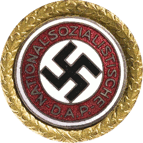 Nazi's badge, in aviation museum of Vienna, 2006. Version with transparent background.